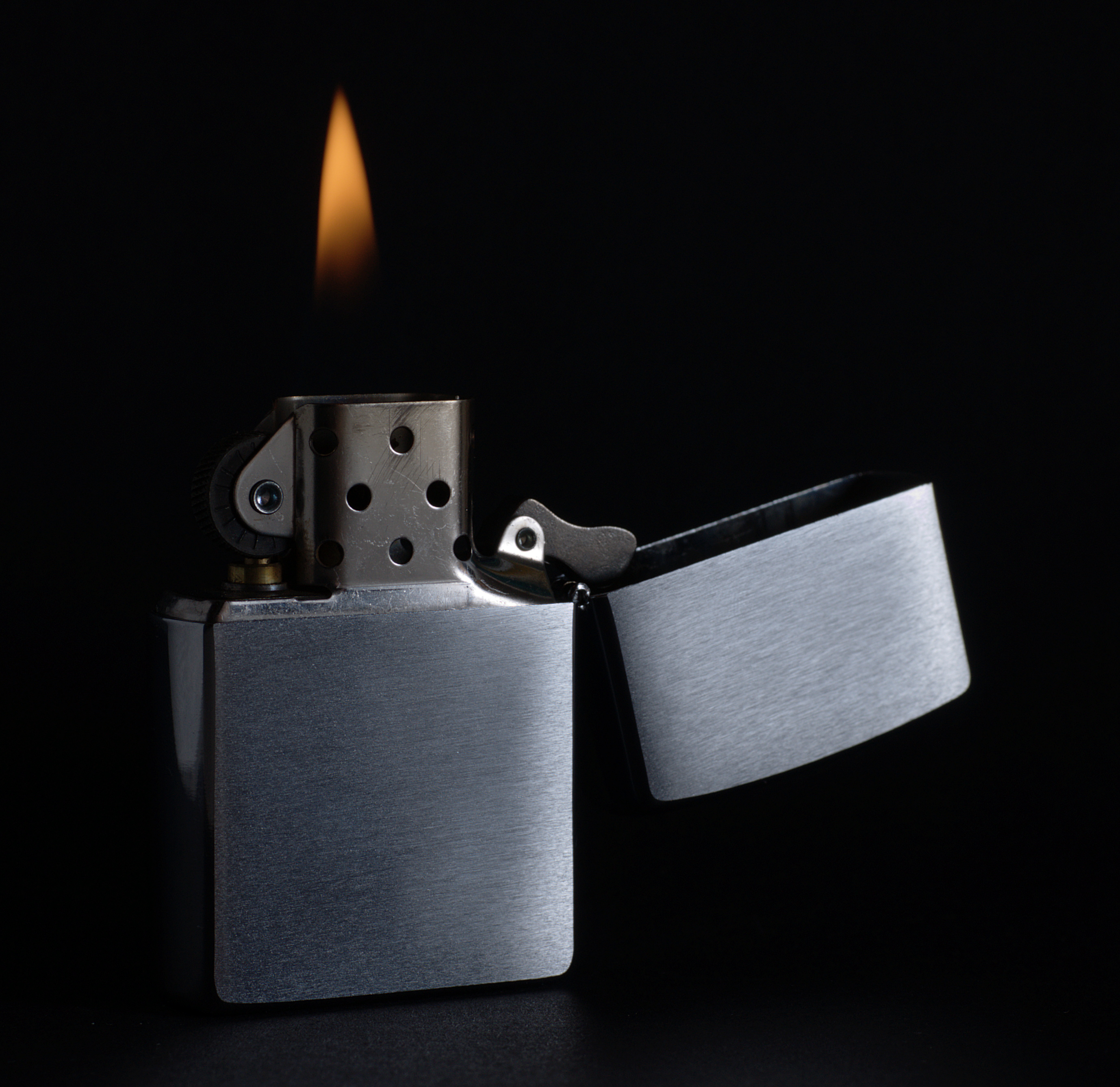 A Zippo. Indirect light (speedlight) from the right hand side against a white roll of paper.